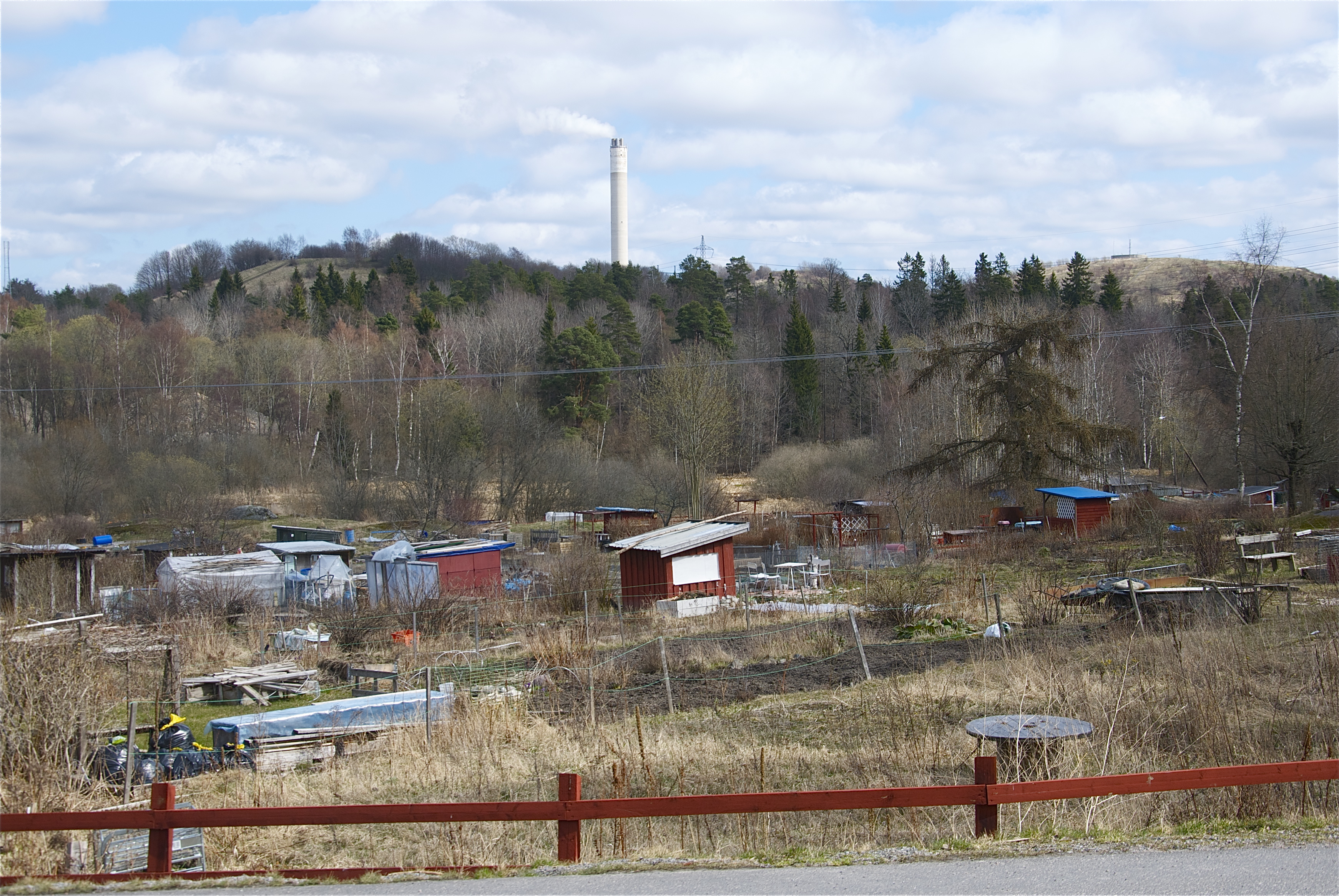 Rågsved friområde